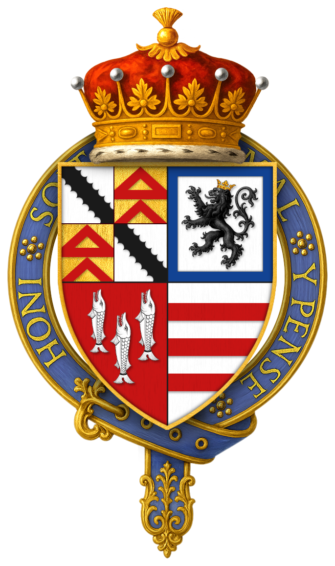 Coat of arms of Sir Robert Radcliffe, 1st Earl of Sussex, KG Sussex's stall plate remains installed within St. George's Chapel. The arms are, quarterly: 1, argent, a bend engrailed sable (Radcliffe), quartering or, a fess between two chevrons gules (Fitzwalter); 2, argent, a lion rampant crowned sable within a bordure azure (Brunell); 3, gules, three lucies hauriant argent (Lucy); 4, argent, three bars gules (Multon).